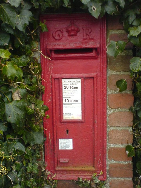 Toldish Post box (G.R. initials) Ref TR9 72 Rarer Georgian Wall Post box